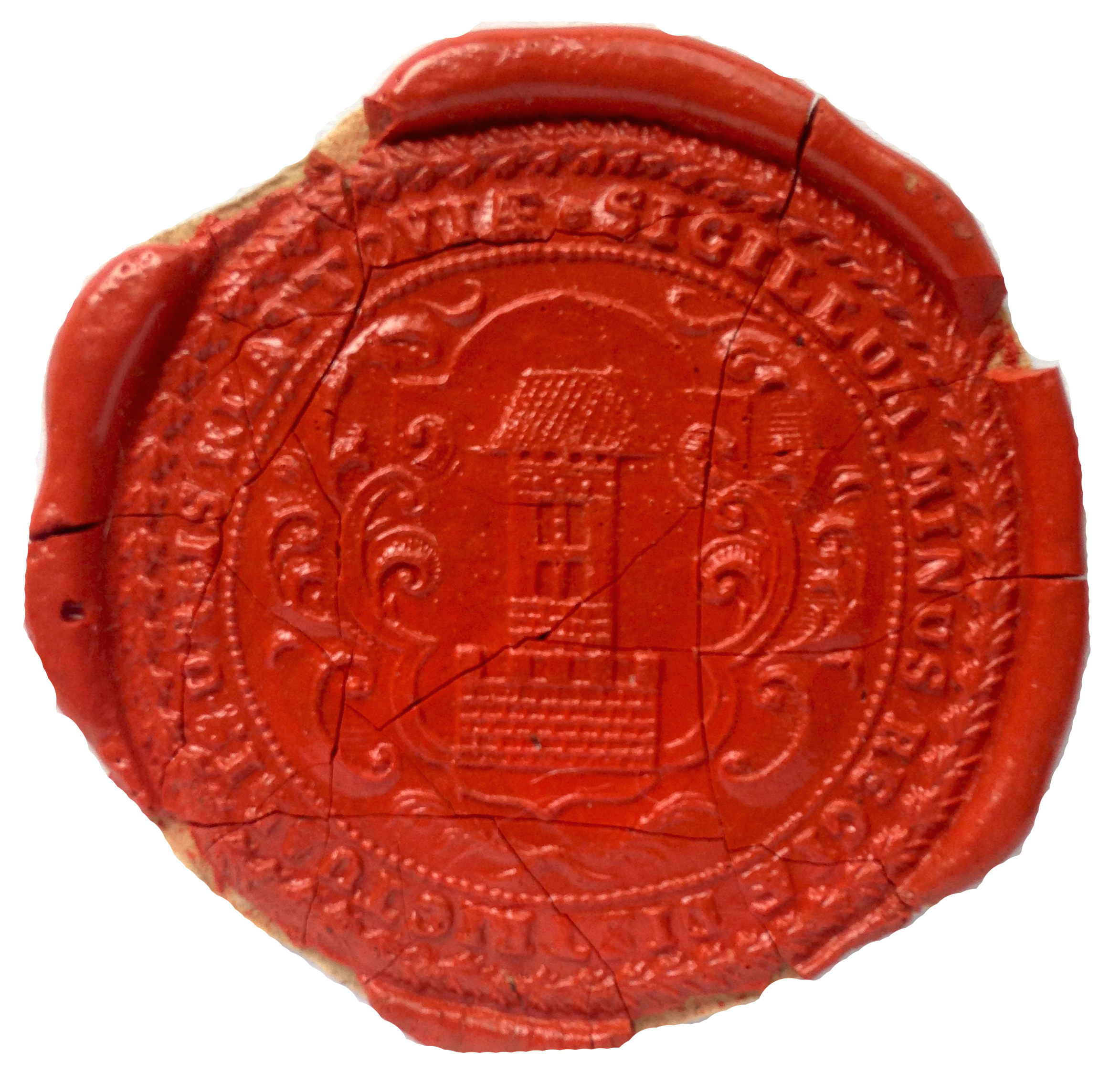 Municipal seal of city Klatovy ~ 1790Bo